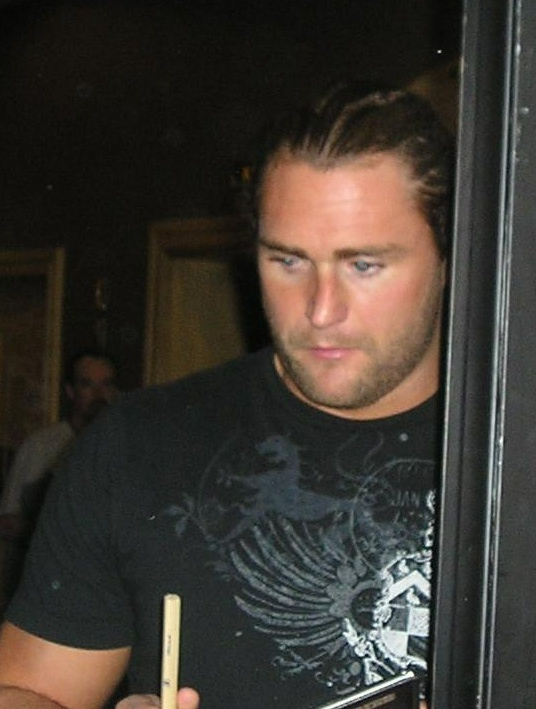 Cropped version of User:Adster95's Image:Burchil signs autographs in belfast for Wrestlemania revenge tour.jpg